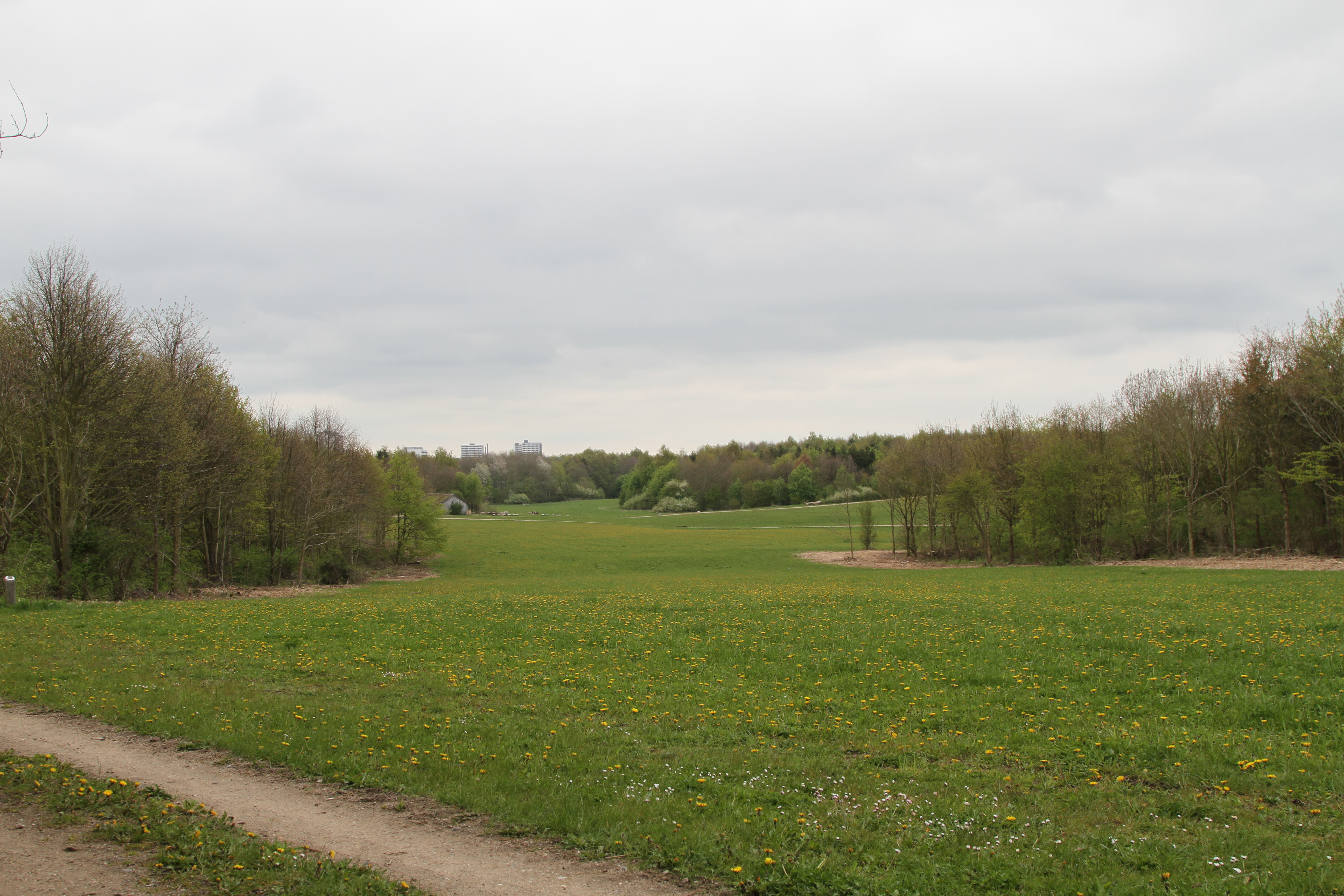 Tusindårsskoven (The Thousand Years Wood) in Odense, Denmark. Planted in 1988, celebrating the city's official one thousand years' jubilee.